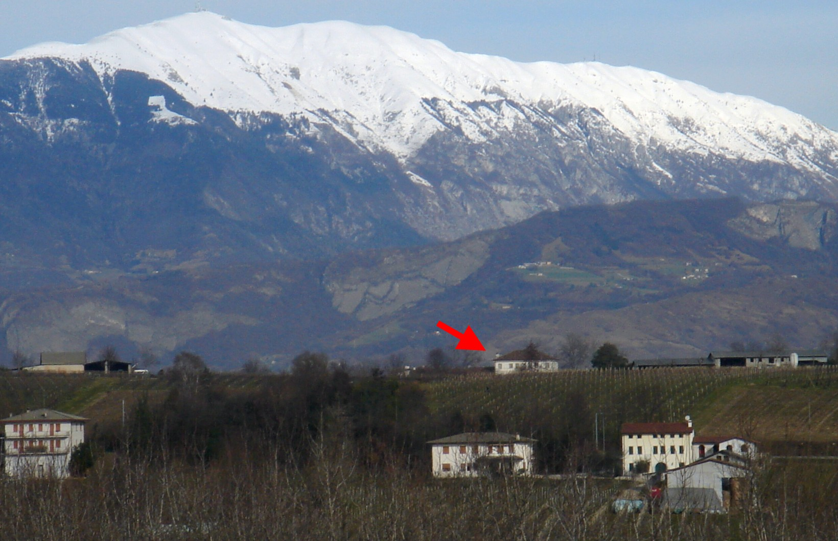 Indicated by a red arrow, Tiziano Vecellio's home in Castello Roganzuolo Col di Manza (nowadays in Colle Umberto), called caséta. A place of artistic inspiration, on venetian hills, between mountains (Prealpi) and venetian plain.